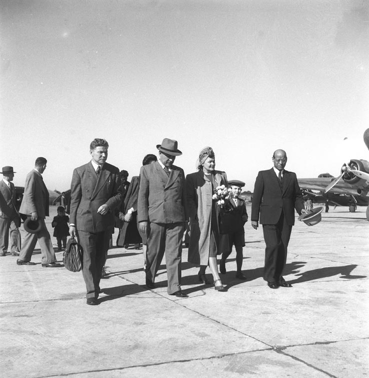 The Russian Ambassador arrives at New Delhi in December 1947.